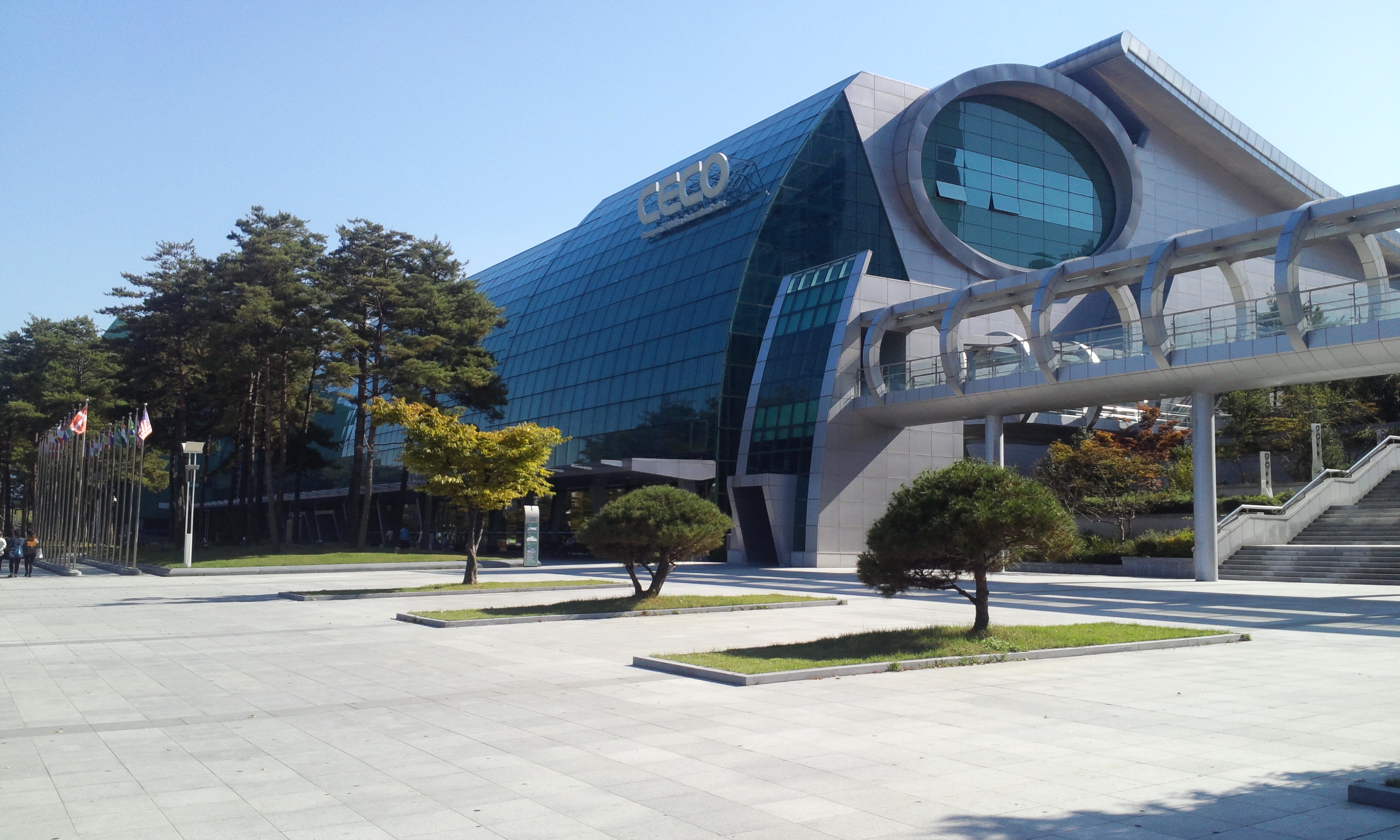 Changwon Exhibition Convention Center on October 13th, 2013.